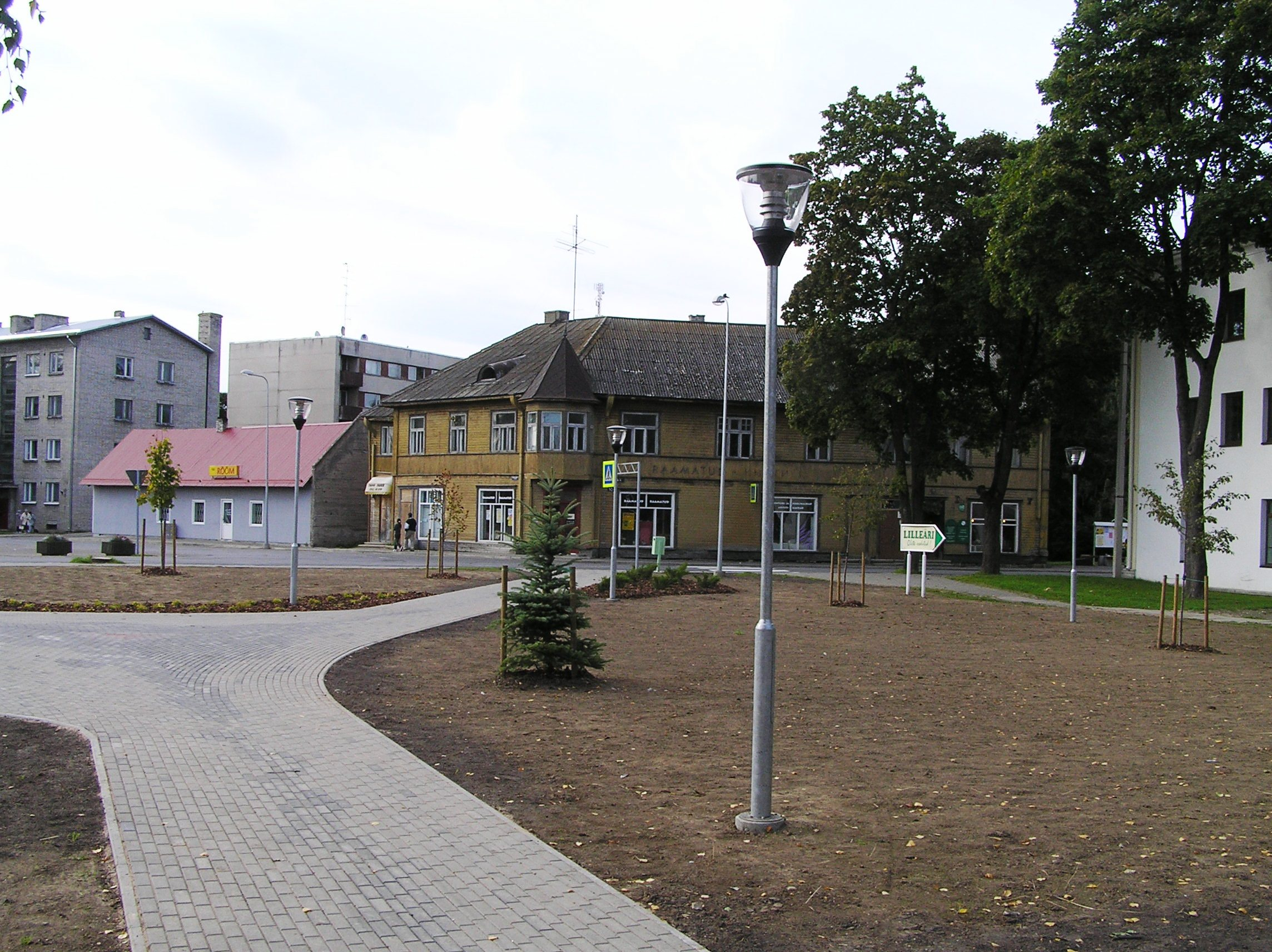 Pikk street, Tapa (Estonia)